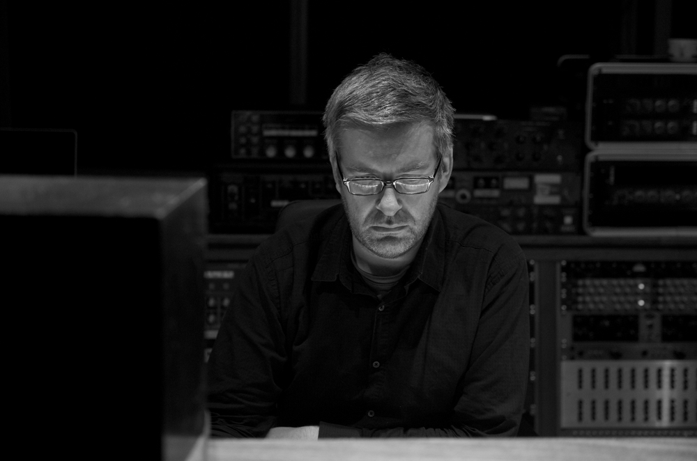 David Odlum at Studio Black Box, France in 2012 during a recording session